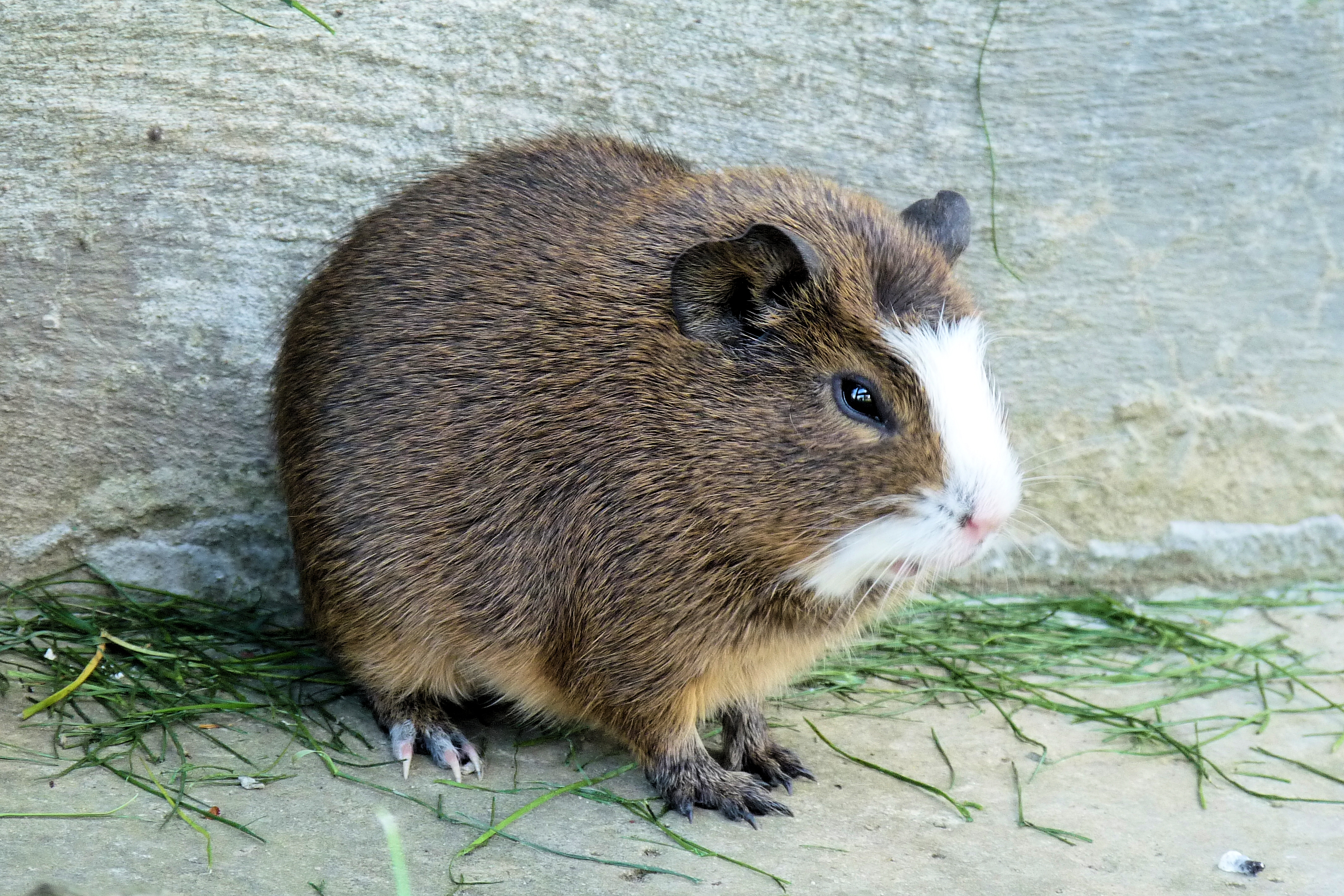 agouti guinea pig